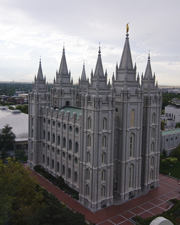 High level view of the Mormon Temple in Salt Lake City